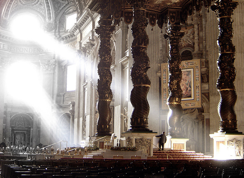 Interior of Saint Peter's Basilica. High altar, under Bernini's baldachino.